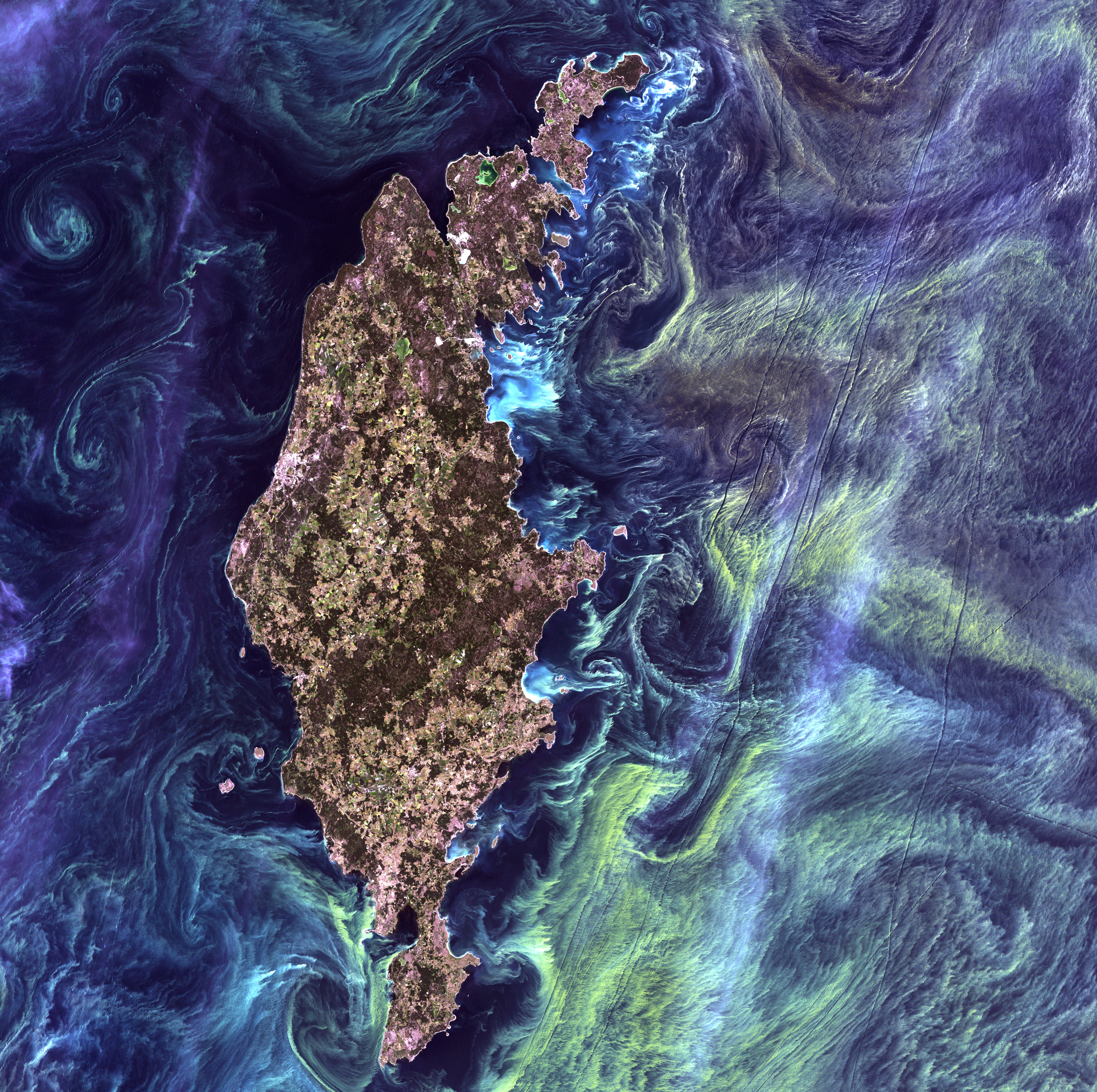 Van Gogh from Space - July 13th, 2005 Description: In the style of Van Gogh's painting Starry Night, massive congregations of greenish phytoplankton swirl in the dark water around Gotland, a Swedish island in the Baltic Sea. Phytoplankton are microscopic marine plants that form the first link in nearly all ocean food chains. Population explosions, or blooms, of phytoplankton, like the one shown here, occur when deep currents bring nutrients up to sunlit surface waters, fueling the growth and reproduction of these tiny plants. To learn more about the Landsat satellite go to